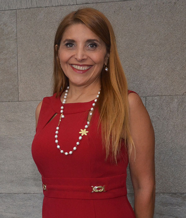 Official portrait of Pamela Gidi Masías as Deputy Secretary of Telecommunications of Chile.